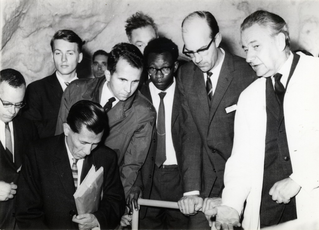 Hydrology course with international participants in Gellért Hill Cave (Hubert Kessler is on the right)